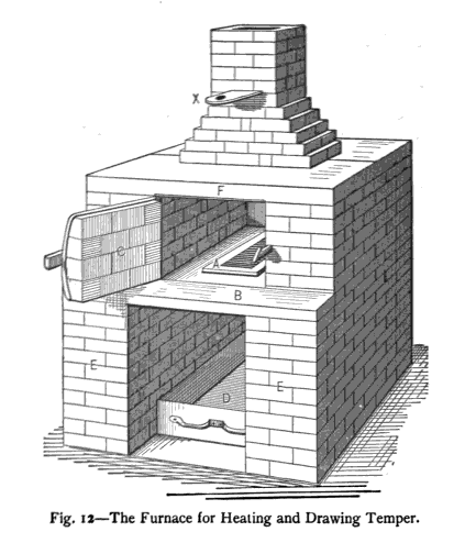 Blacksmith furnace for heating and drawing temper of tools